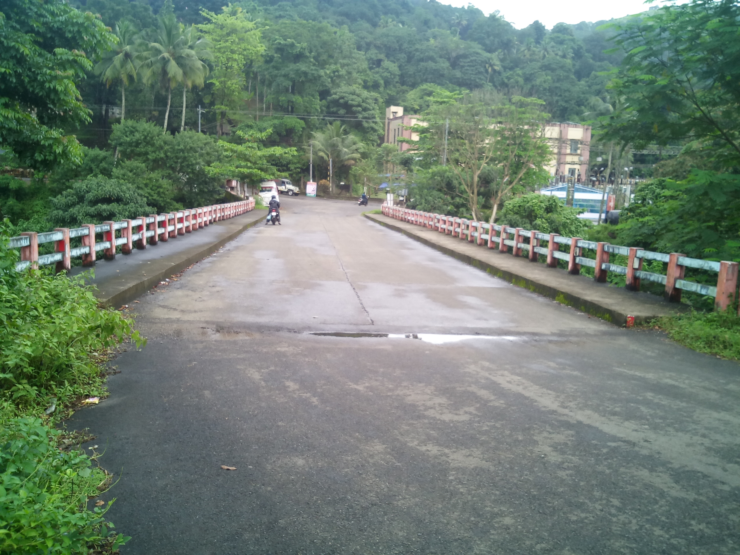 seethathode bridge across pamba river